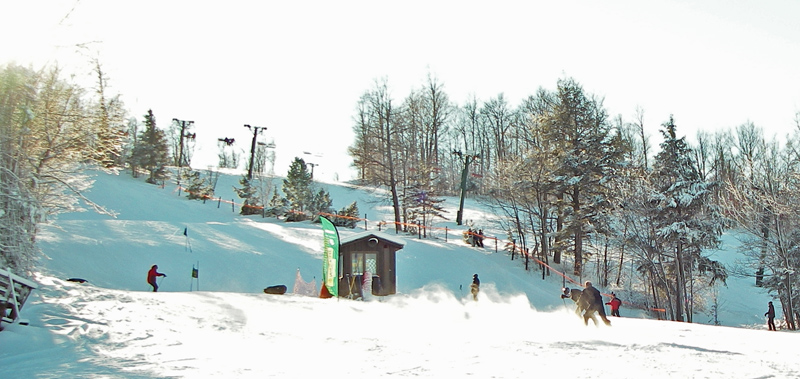 The base of the Nastar course at Indianhead Mountain. Located on Sundance.